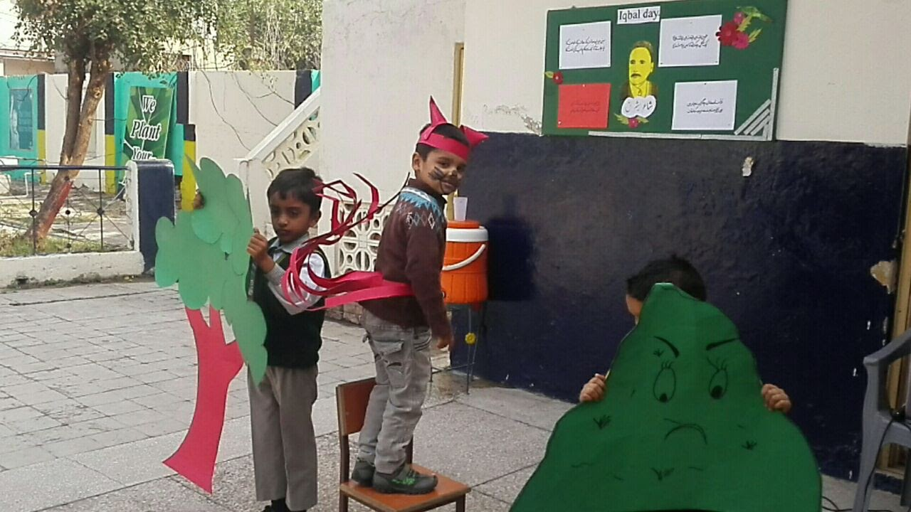 Dar-e-Arqam school kids in a tablo